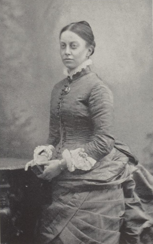 Anna van Hogendorp (1841-1915)